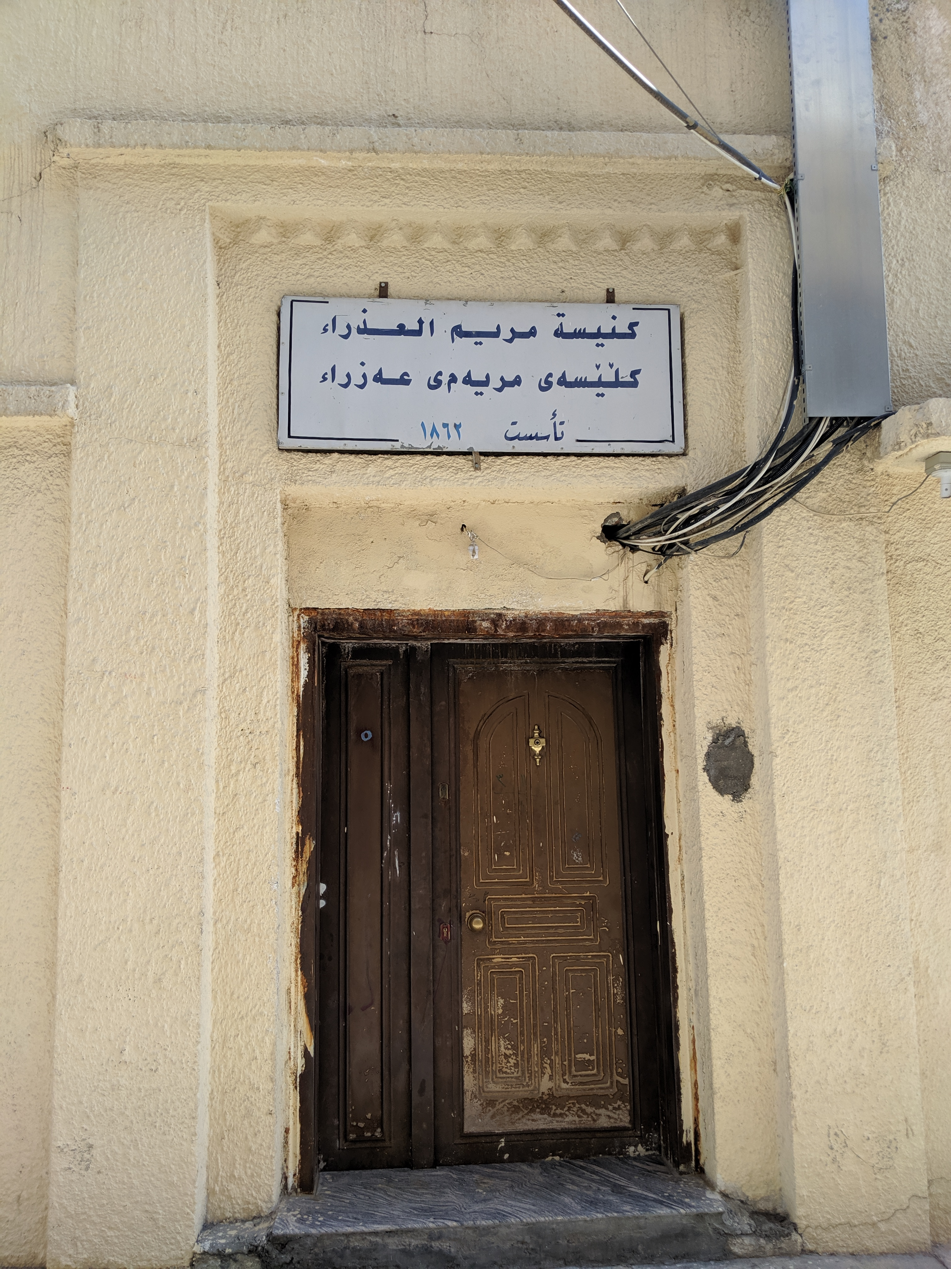 Mary Al Azra church, sulaymaniyah - Sabunkaran